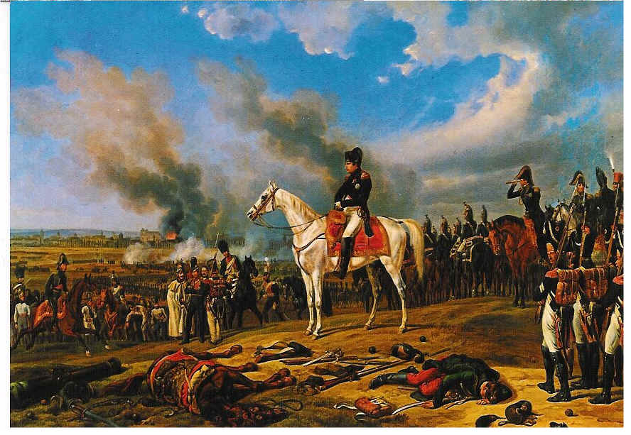 Napoleon in 1809, battle of Regensburg